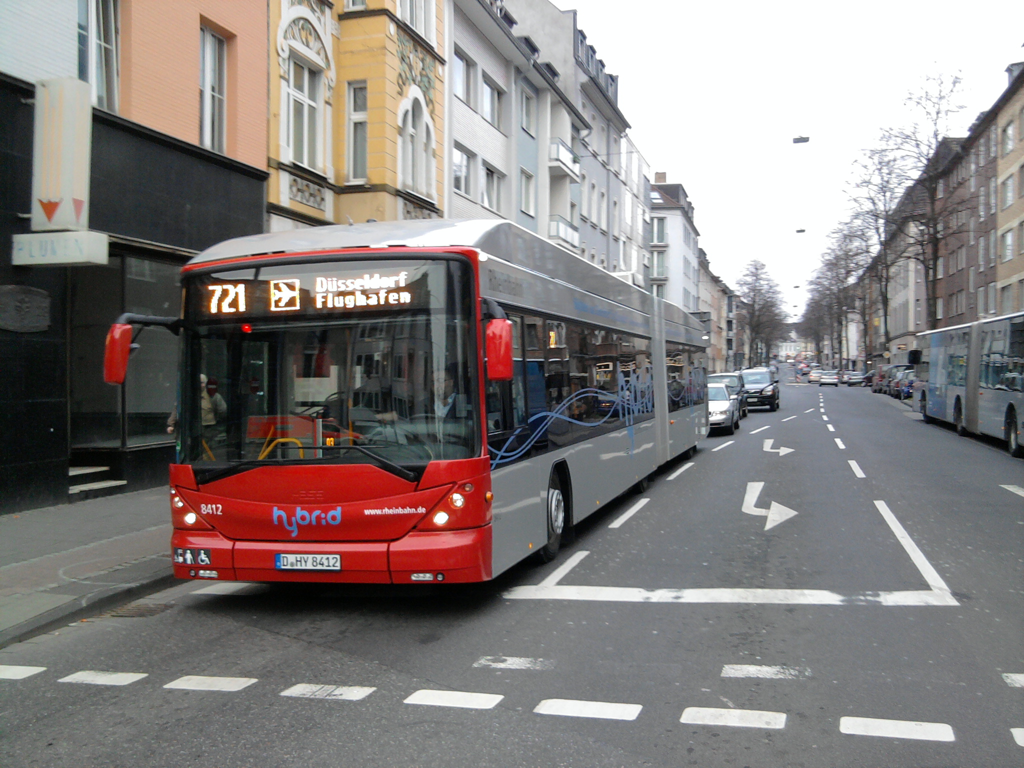 Hess SwissHybrid BGH-N2C bus (#8412, reg. D-HY 8412, built 2010) in Düsseldorf, Germany, operated by the Rheinbahn AG.